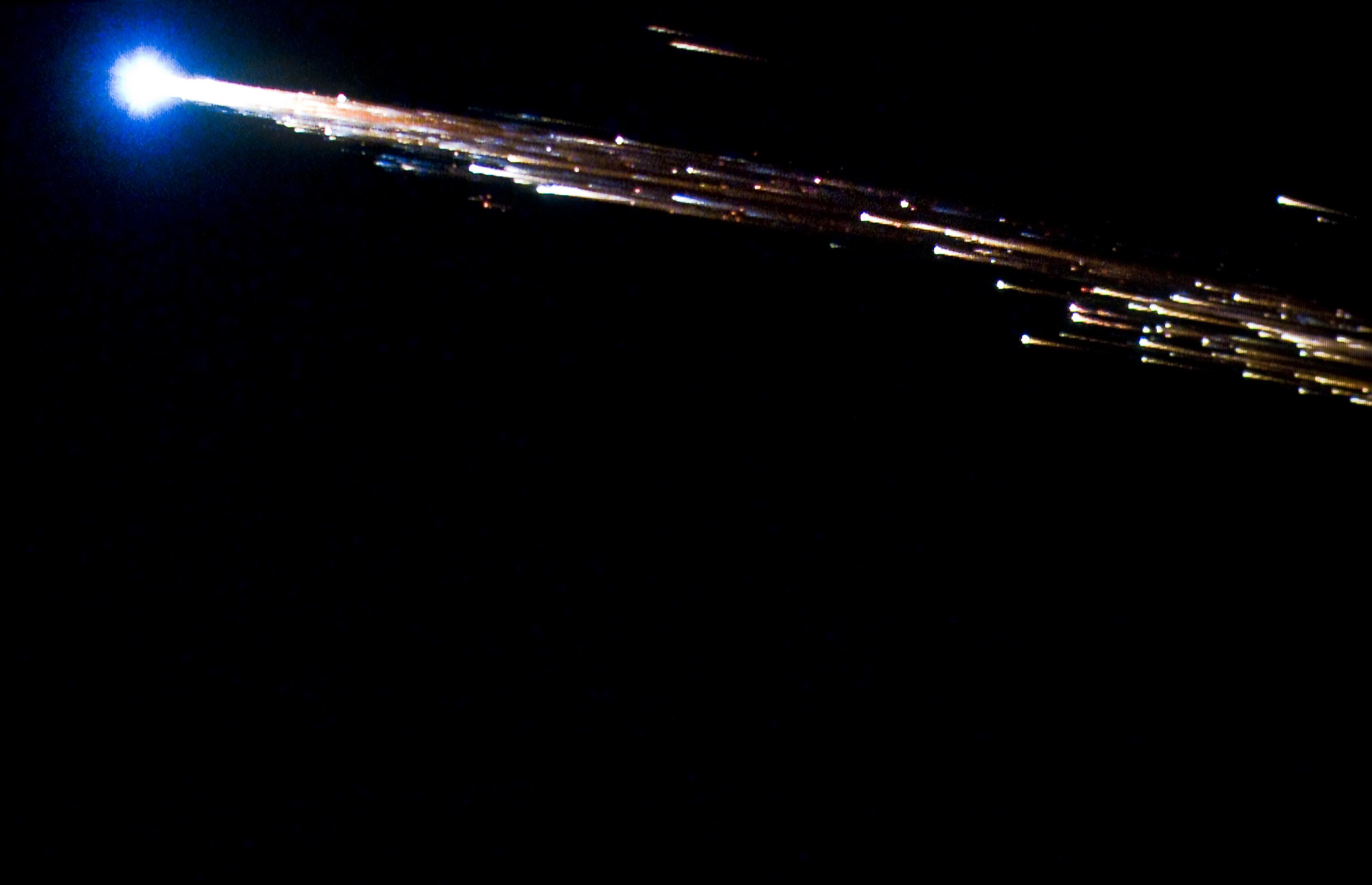 After completing its mission to re-supply the International Space Station, the European Space Agency's Jules Verne Automated Transfer Vehicle (ATV) entered the Earth's atmosphere, where researchers captured images of its fiery end. In the early morning hours of September 29, 2008, the ATV entered the atmosphere above an uninhabited section of the Pacific Ocean, southwest of Tahiti. Researchers captured visible, infrared, ultraviolet and spectroscopic data during the re-entry. NASA's primary goal of the airborne project was to study the spacecraft's re-entry and compare it to meteor fragmentation. The image was taken from high-definition video footage captured during the mission.